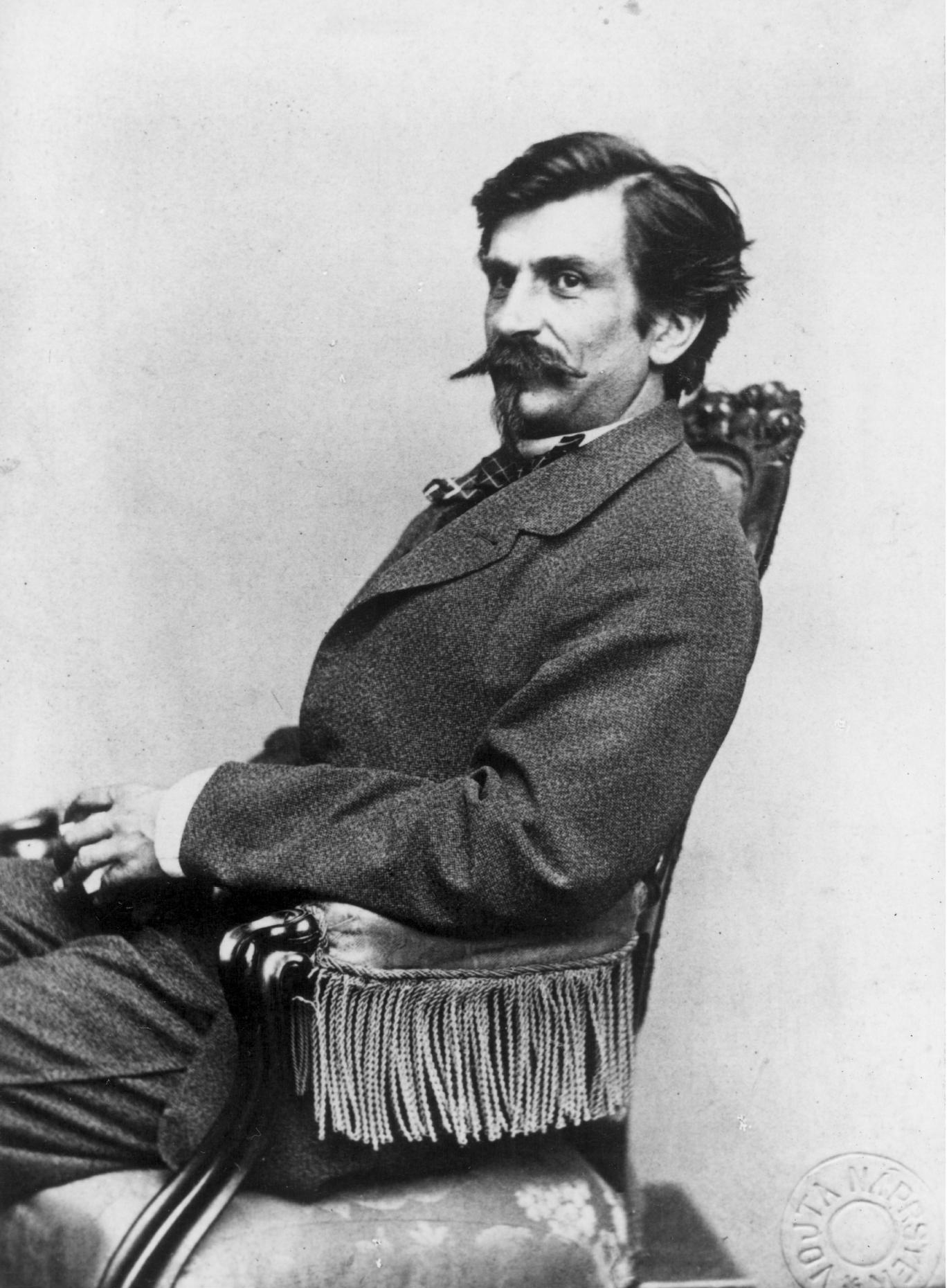 Vilém Dušan Lambl (1824-1895)